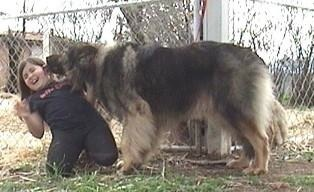 This is a picture of an American Alsatian enjoying the company of a child.